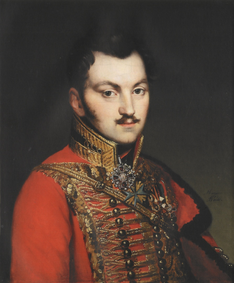 Zybin Segrey Vasilevich